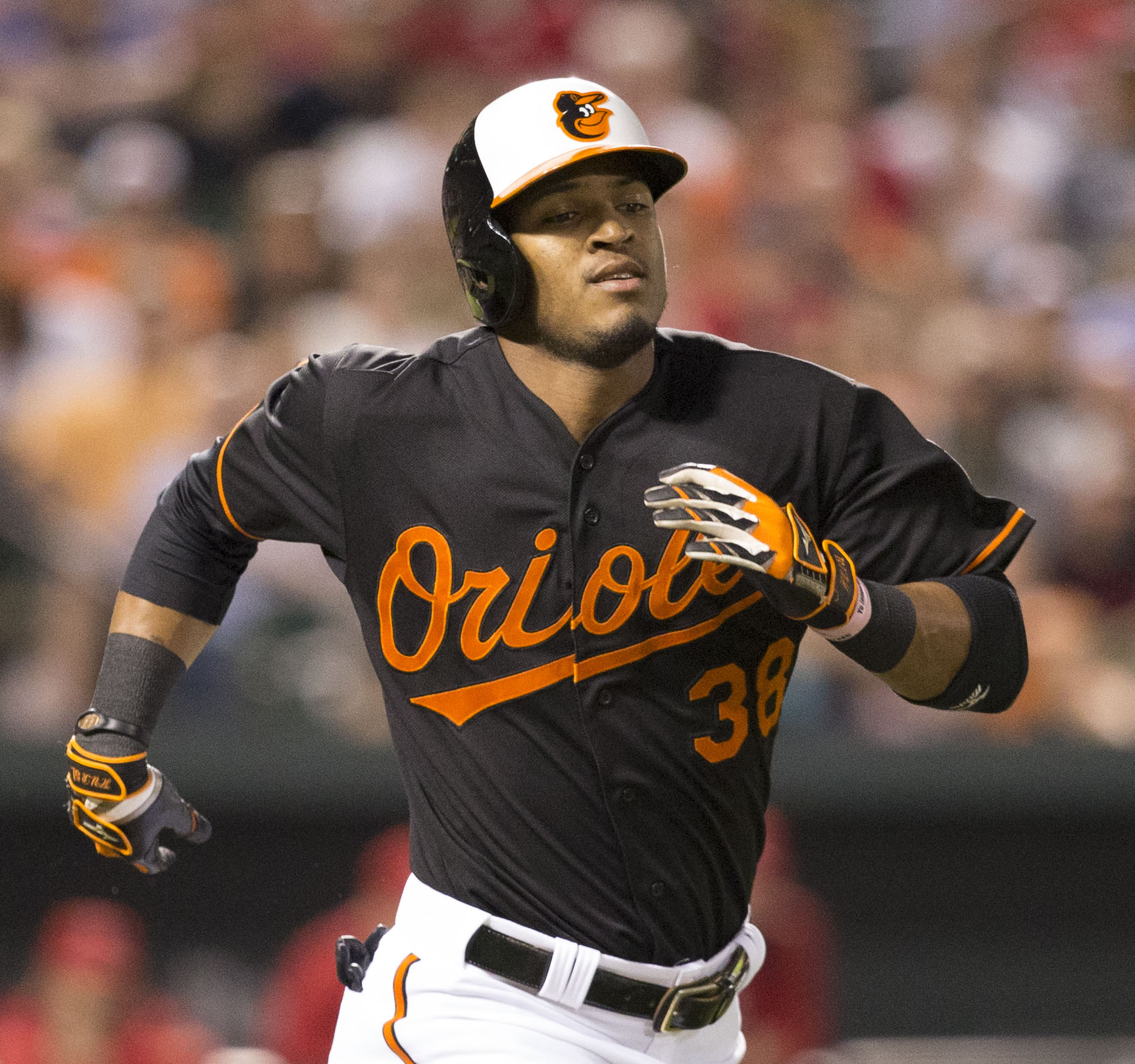 Jimmy Paredes